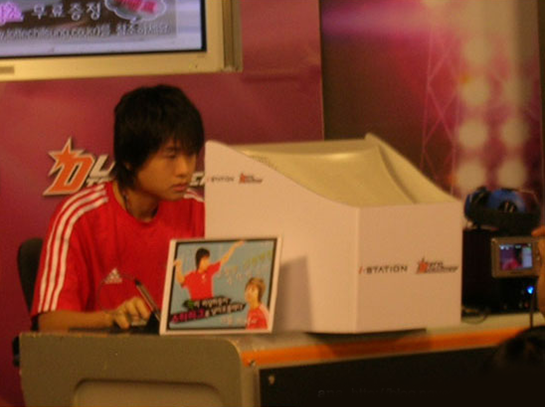 Children trying out for the 2008 Starleague